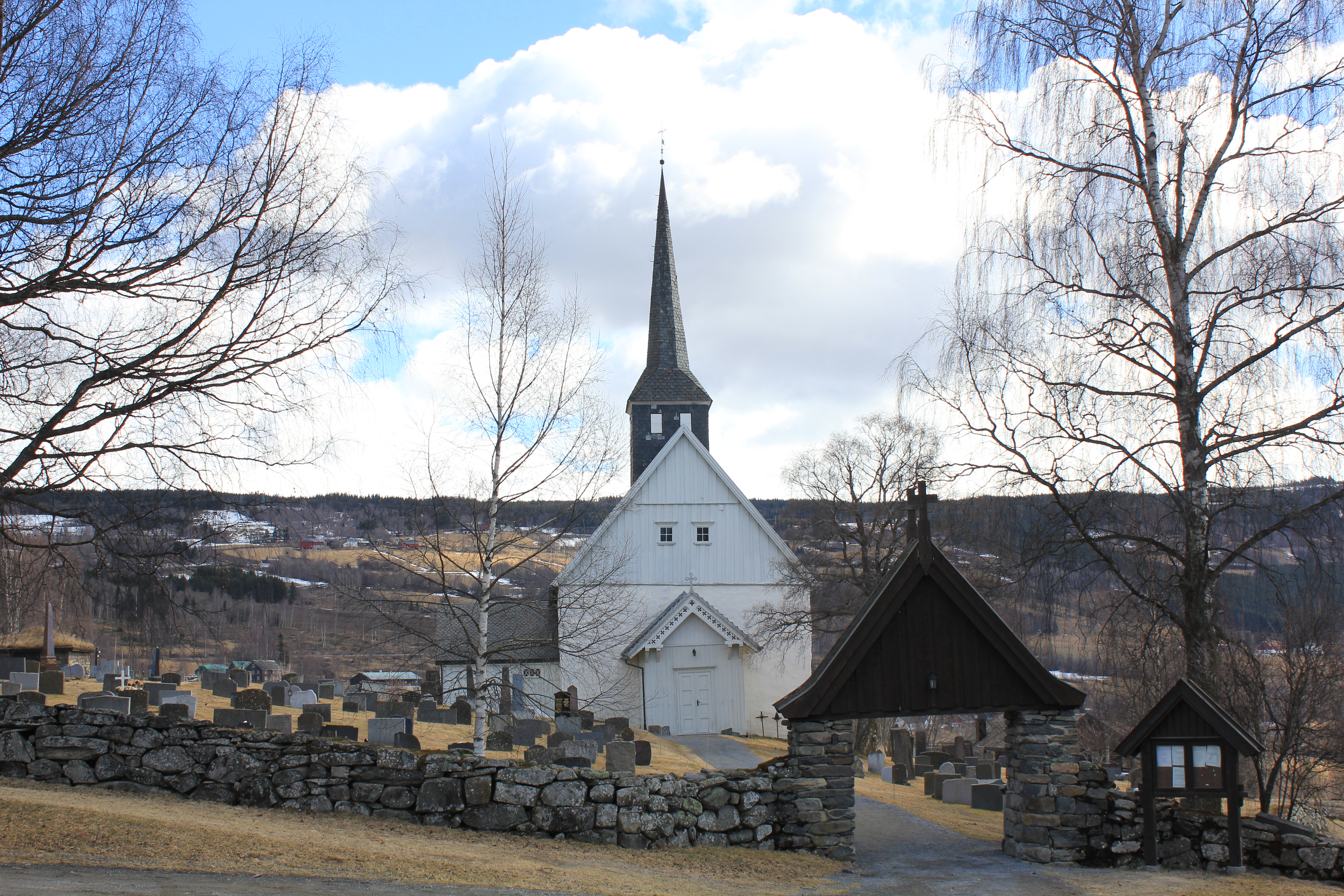 Follebu church, Gausdal, Oppland, Norway.